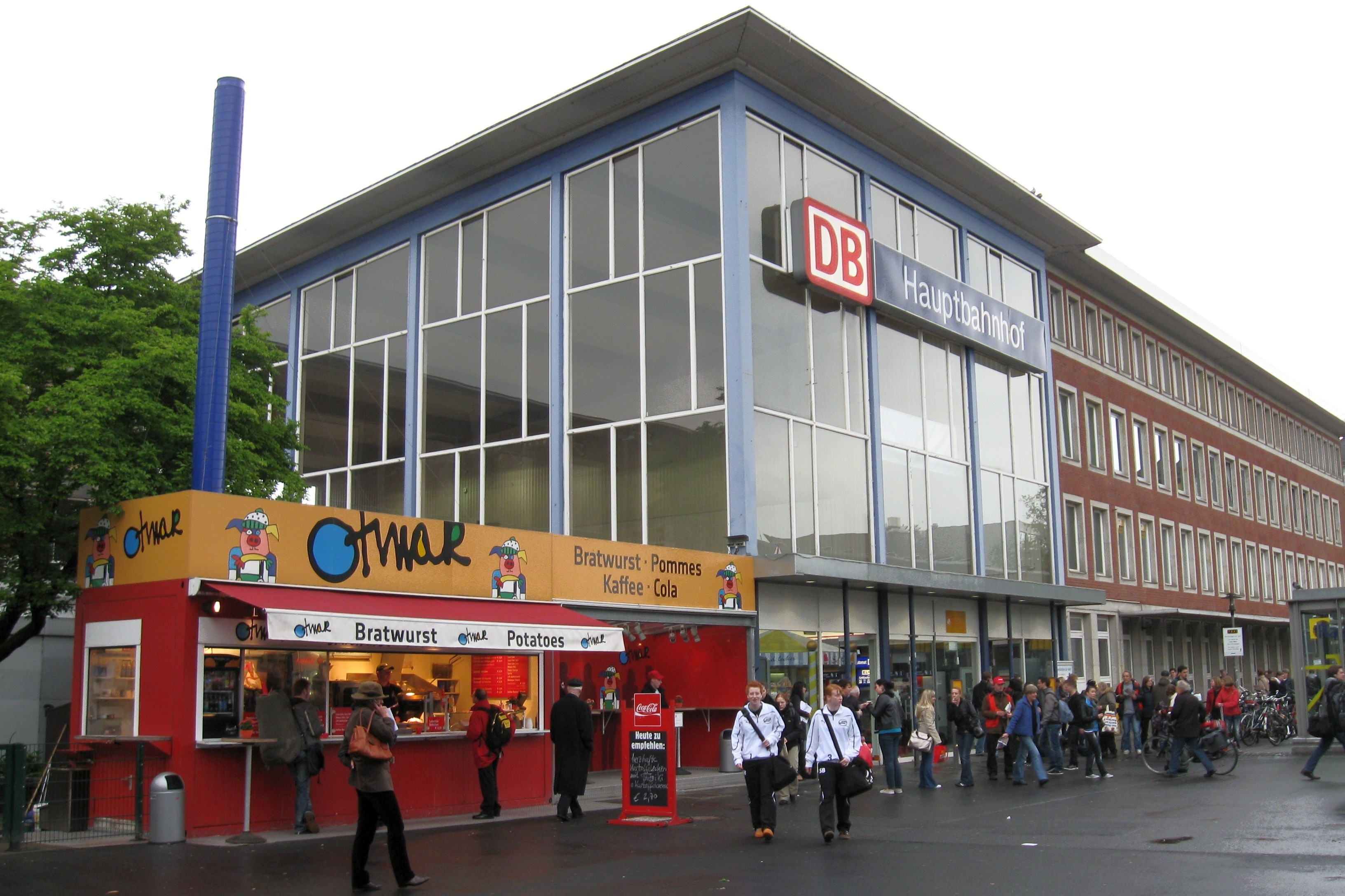 Münster Central Station, 2010